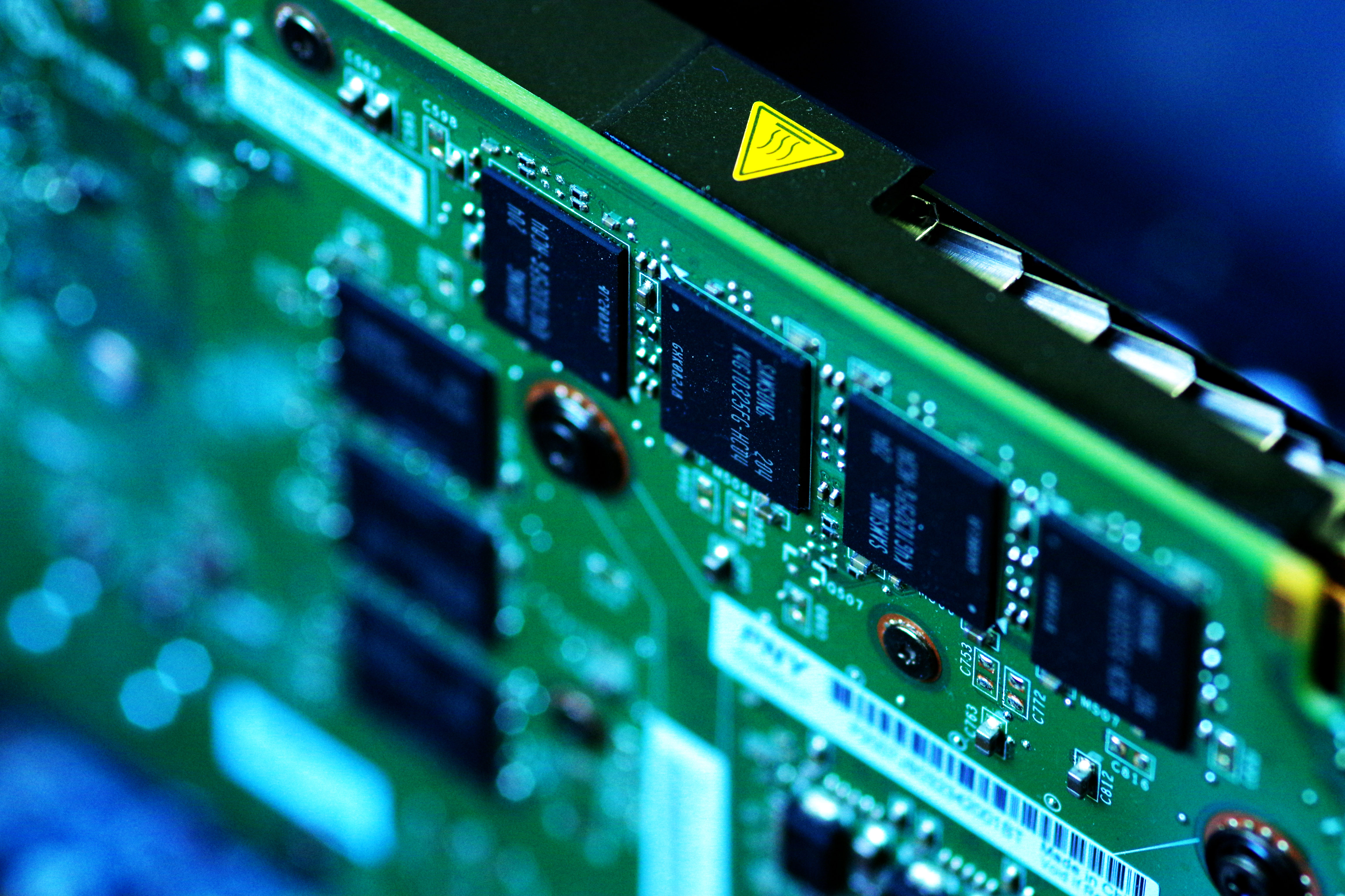 Picture of a GPU card